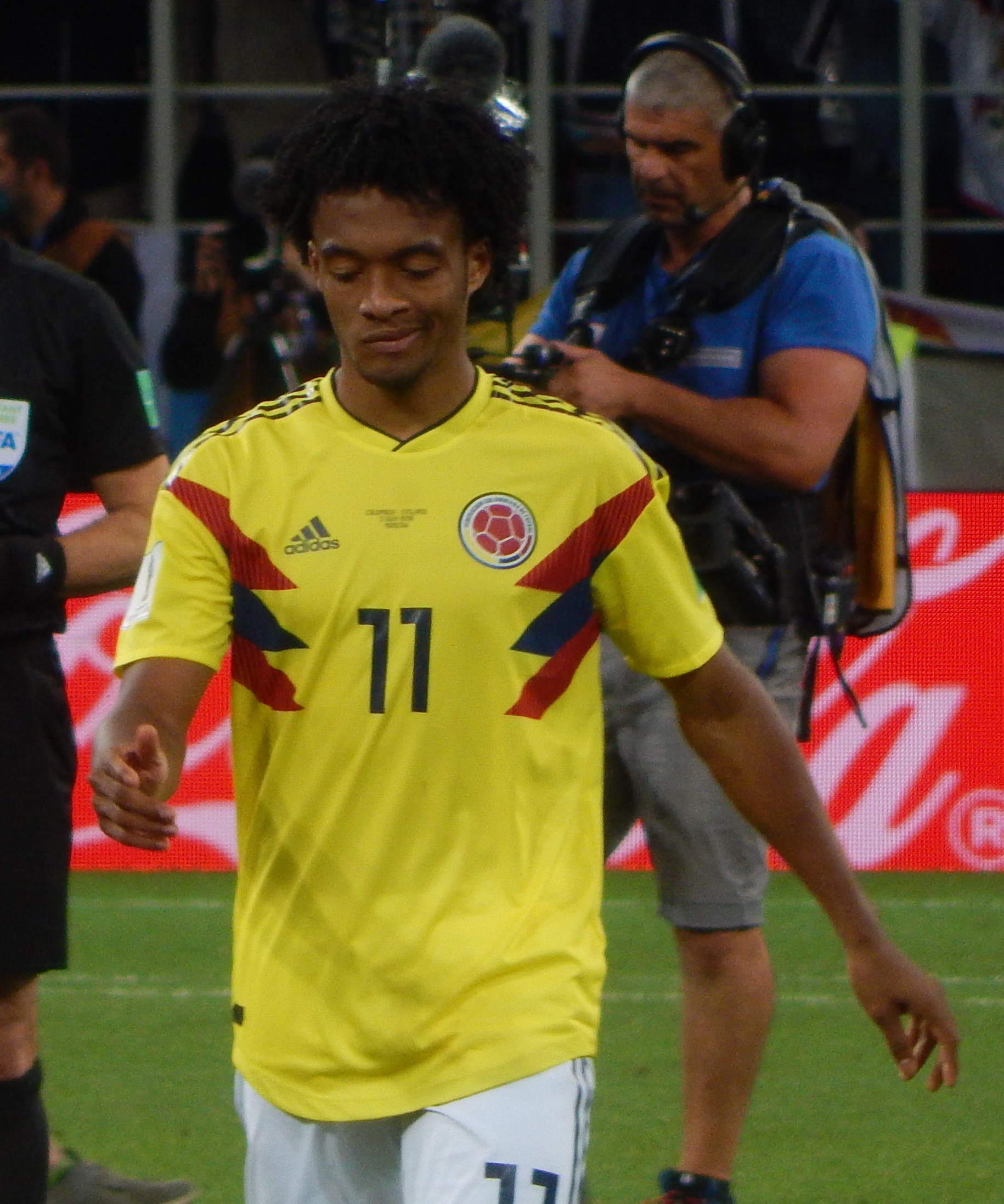 FIFA World Cup 2018, Round of 16, Colombia vs. England. Juan Cuadrado before his penalty kick during the shoot-out